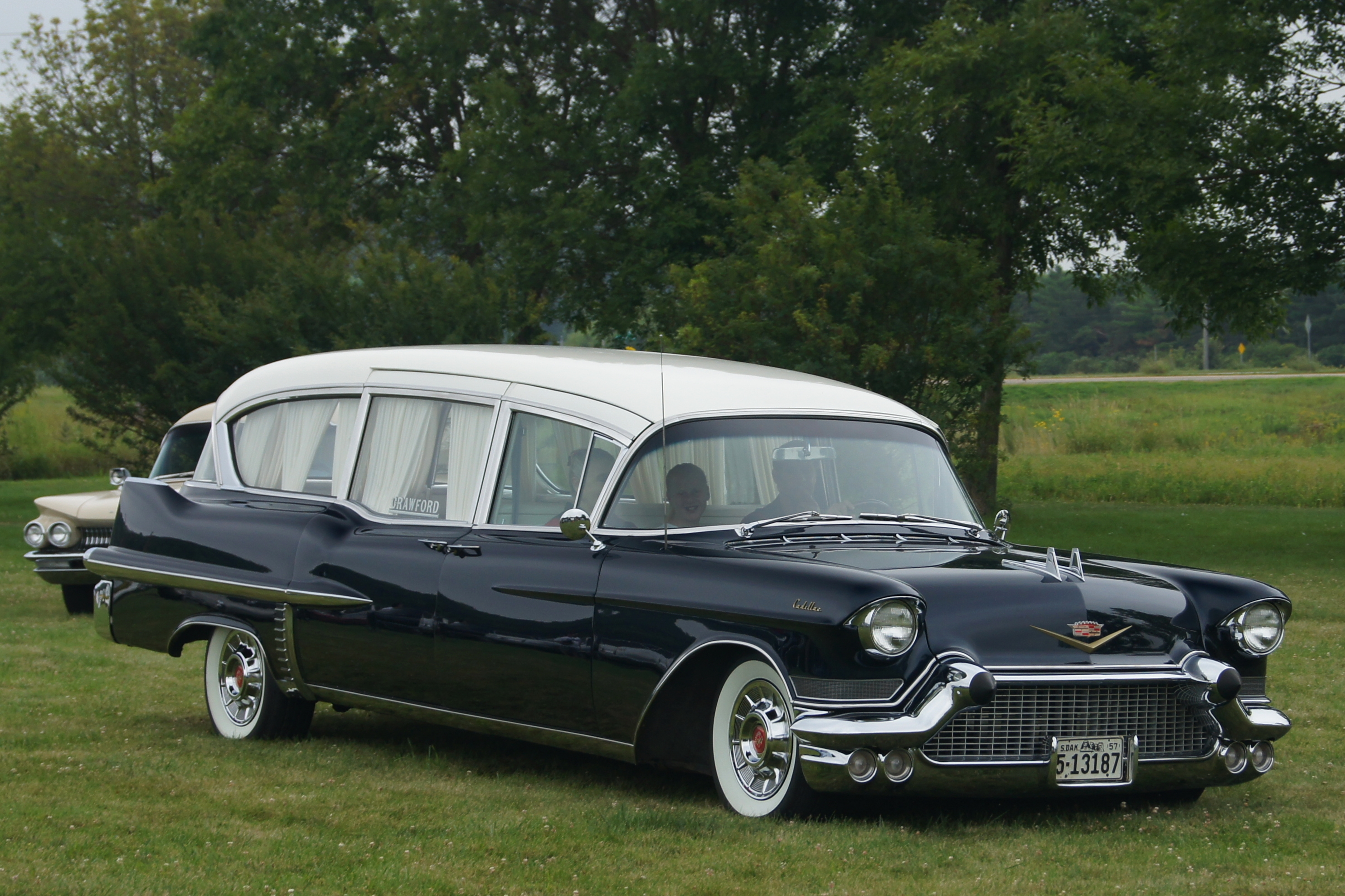 Professional Car Society International Meet 2014 Respond to Rochester Host: Northland Chapter (Celebrating Northland's 25th Anniversary) PCS Concours D'Elagance Show & Shine August 16, 2014 Olmstead County History Center Rochester, Minnesota You can see more car pictures by clicking on the link below